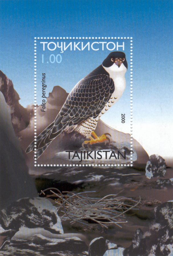 [Falco peregrinus] stamp, from Tajikistan.